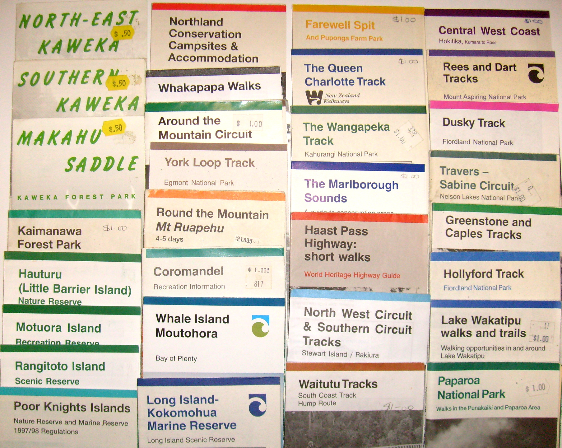 some track pamphlets as distributet and sold by the DoC